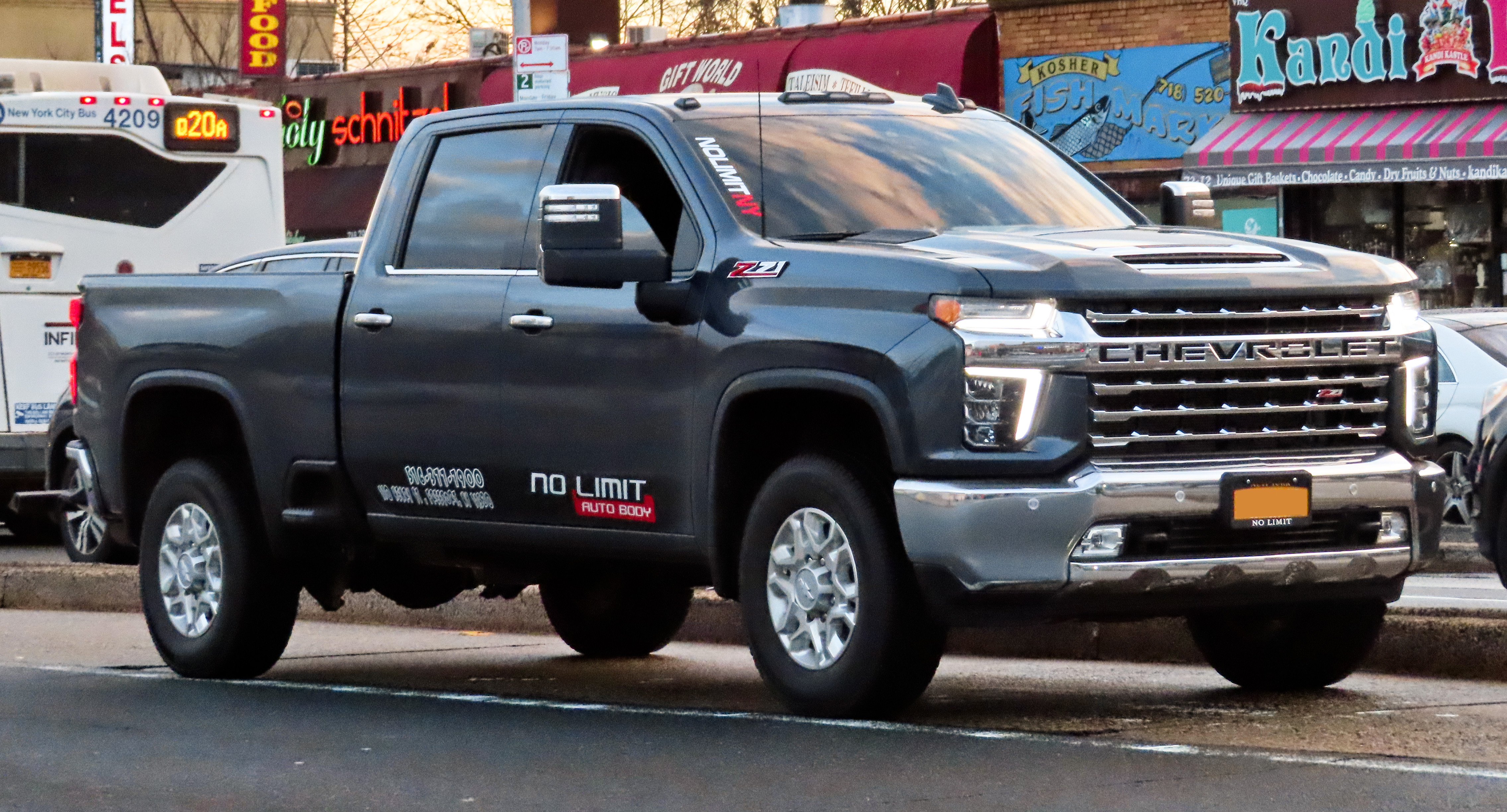 A 2020 Chevrolet Silverado 2500 LTZ photographed in Kew Gardens Hills, Queens, New York, USA